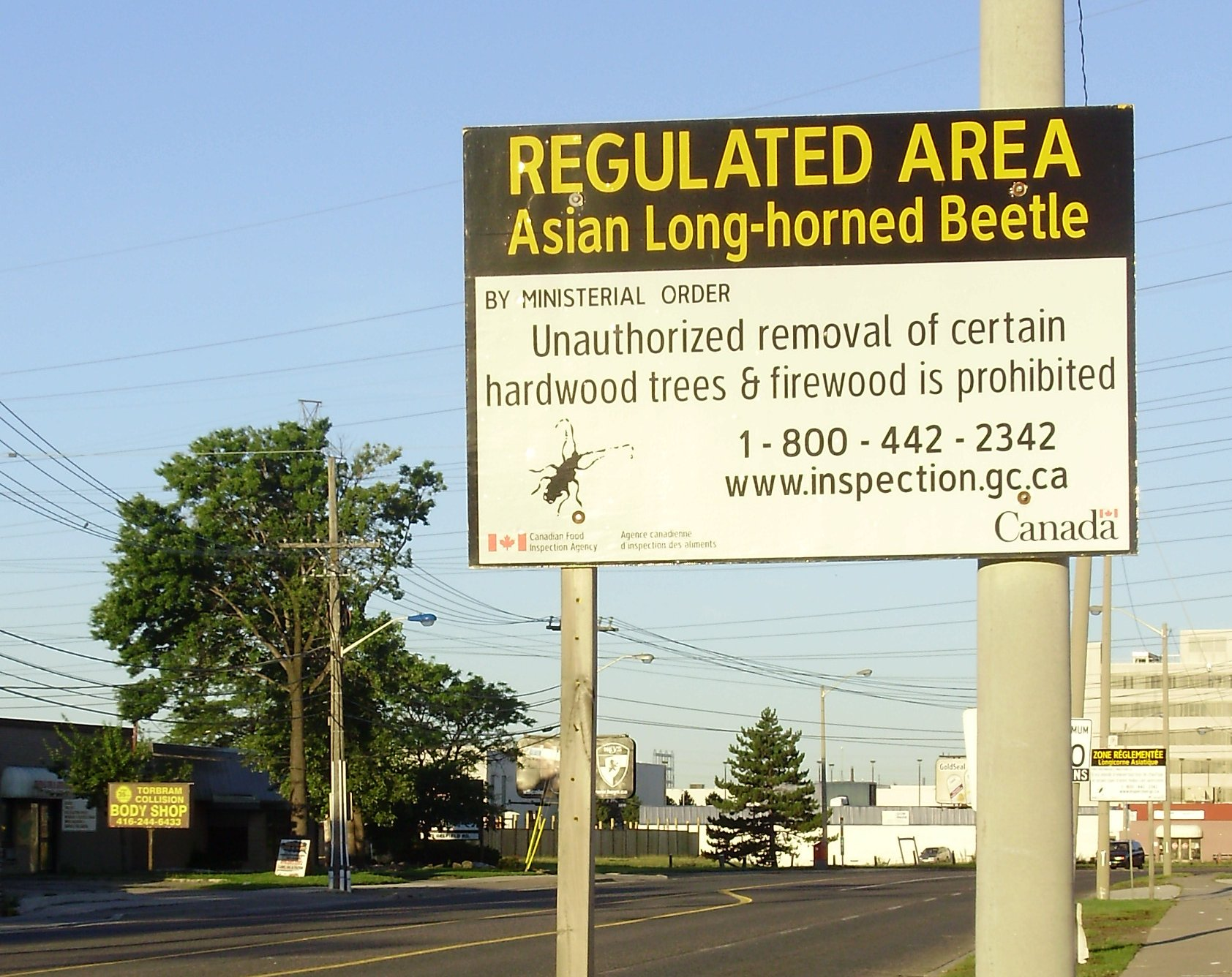 This regulatory notice, posted on Belfield Road in Toronto, Ontario, Canada, is part of the Canadian Food Inspection Agency's efforts to contain the current infestation of Asian long-horned beetles within the presently affected areas of the Greater Toronto Area.